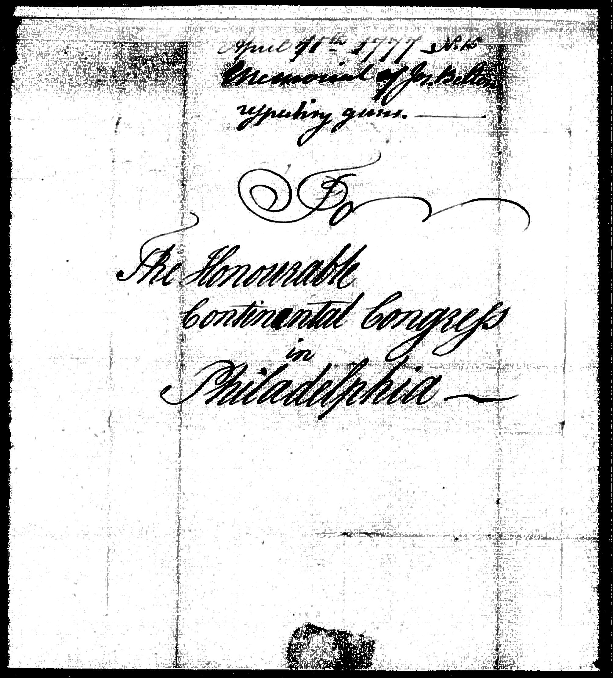 Correspondence between inventor Joseph Belton and the Continental Congress about his multi-shot flintlock design, 1777.